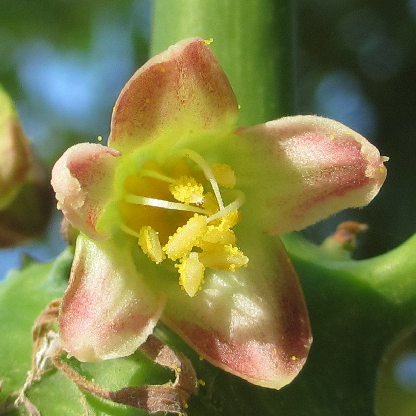 cassava - male flower